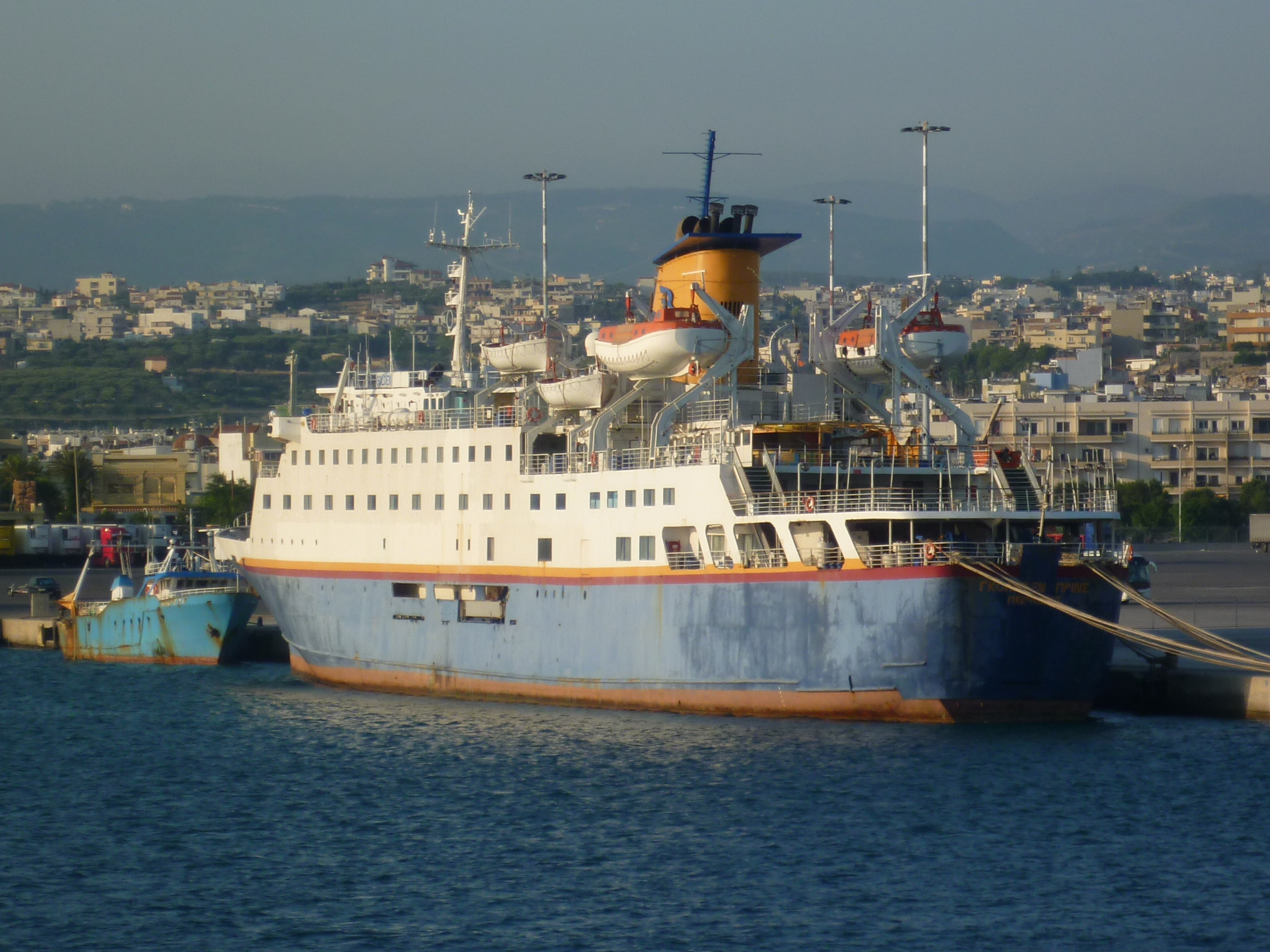 Golden Prince at Heraklion, 5 July 2011